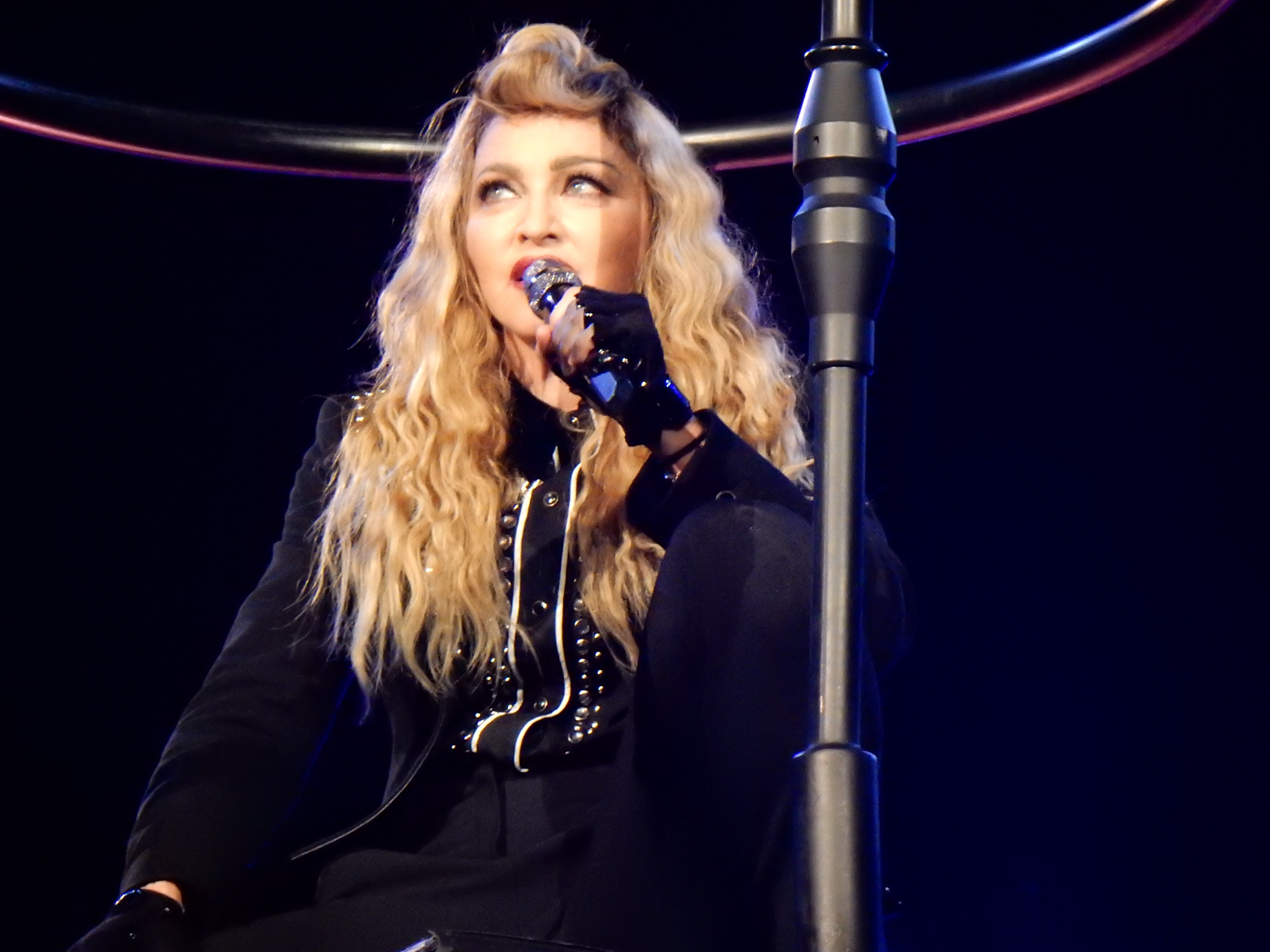 Madonna - Rebel Heart Tour 2015 - Paris 2